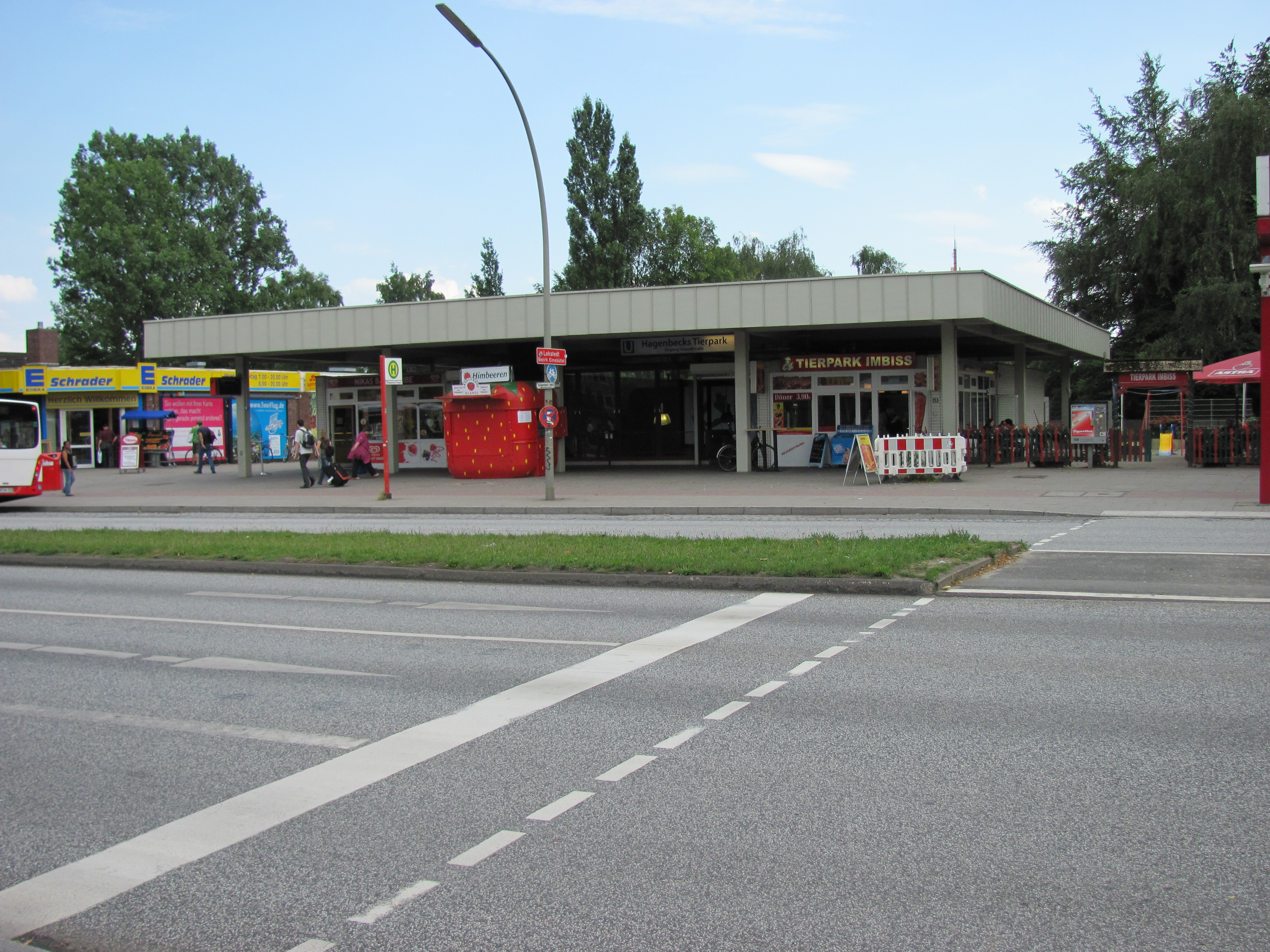 U-Bahn station Hagenbecks Tierpark in Hamburg, Germany